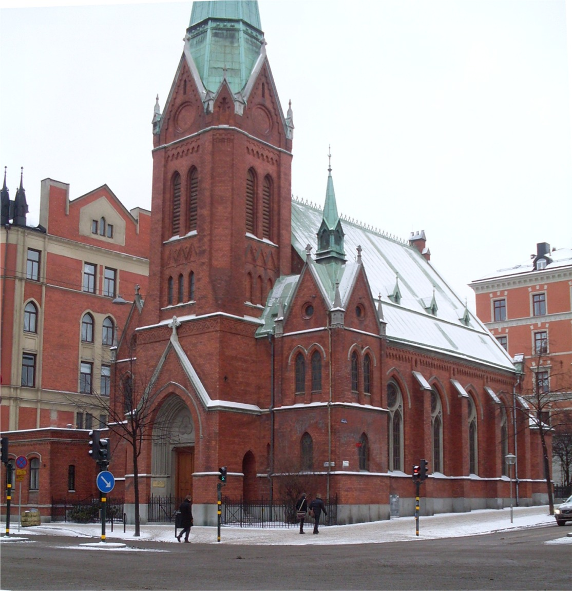 The Greek-Orthodox Metropolitan Church of Saint George in Stockholm (Sankt Georgios grekisk-ortodoxa metropolitkyrka), located at the address Birger Jarlsgatan 92, at the crossing of the streets Birger Jarlsgatan and Odengatan. The church was originally built in 1889-1890 for the Stockholm Catholic-Apostolic (Irvingite) congregation. After the Catholic-Apostolic congregation had mostly died out, it was taken over by the Greek-Orthodox church in the 1970s. The architect was A. G. Forsberg. Information from here.